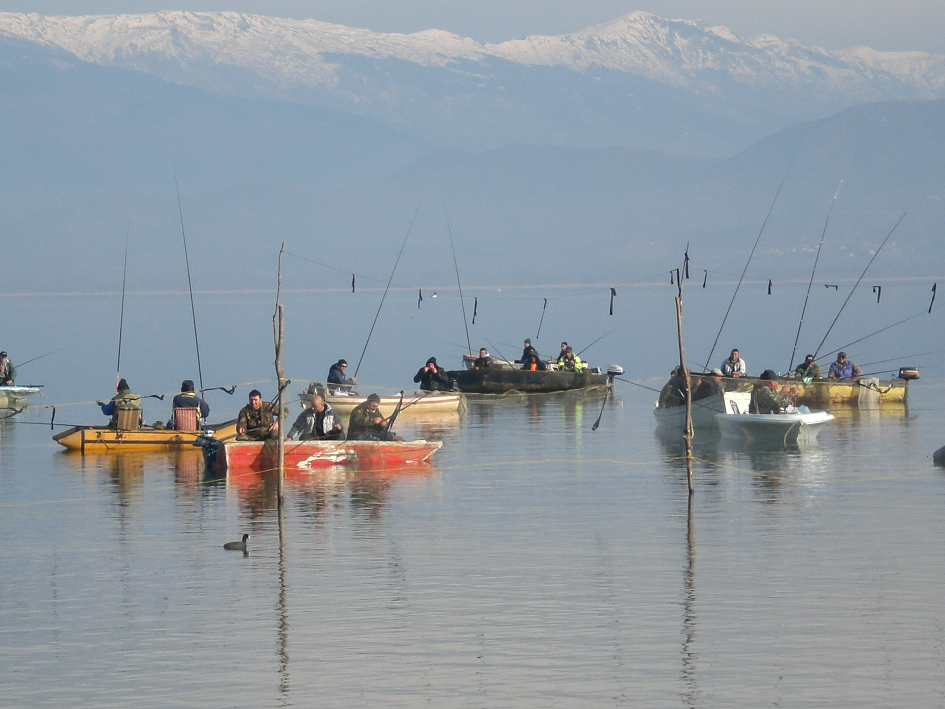 Dojran Lake